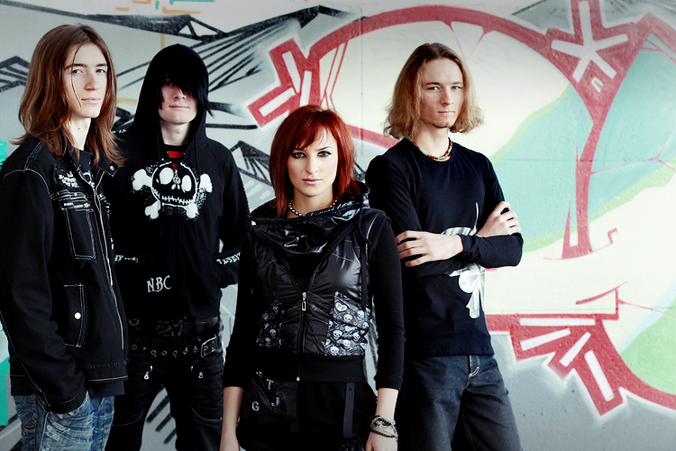 marvel foto